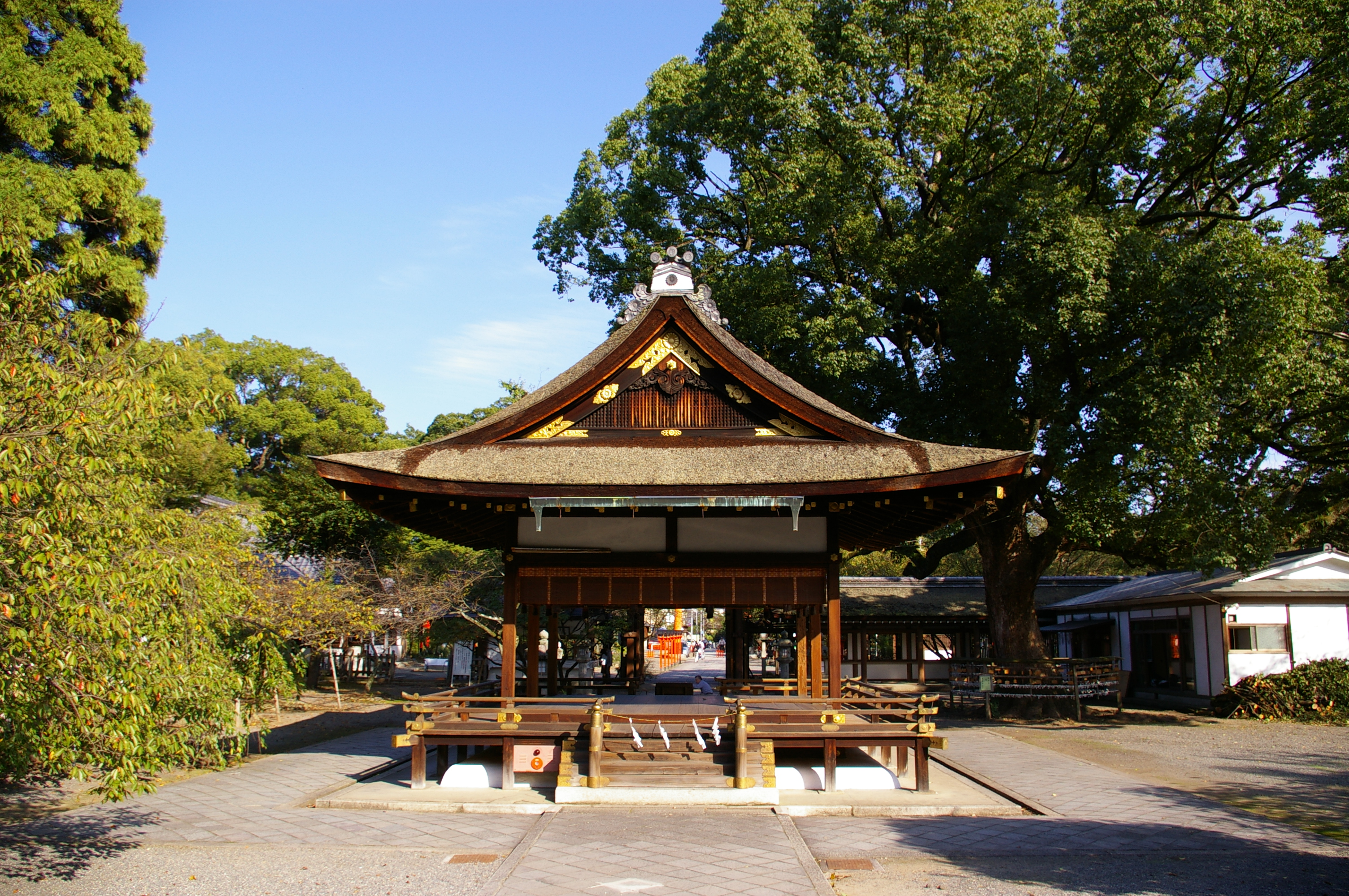 Haiden,Hirano-jinja_shrine